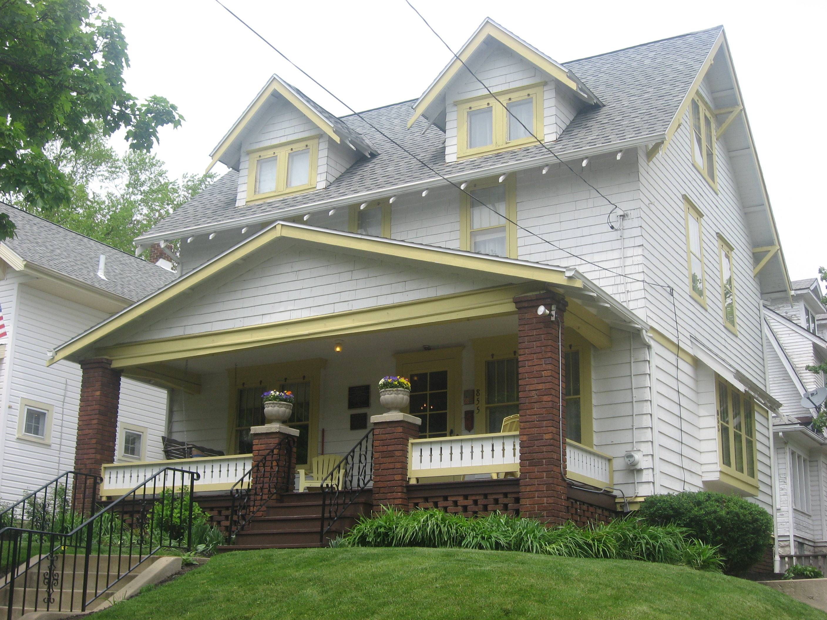 Front of the Dr. Robert Smith House, located at 855 Ardmore Avenue in Akron, Ohio, United States. During the 1930s, its owner Robert Smith founded a support group for alcoholics here with his acquaintance Bill Wilson; it grew into Alcoholics Anonymous. Built in 1914 and operated as a museum by an AA-affiliated group, it was listed on the National Register of Historic Places in 1985 and was designated a National Historic Landmark in 2012.